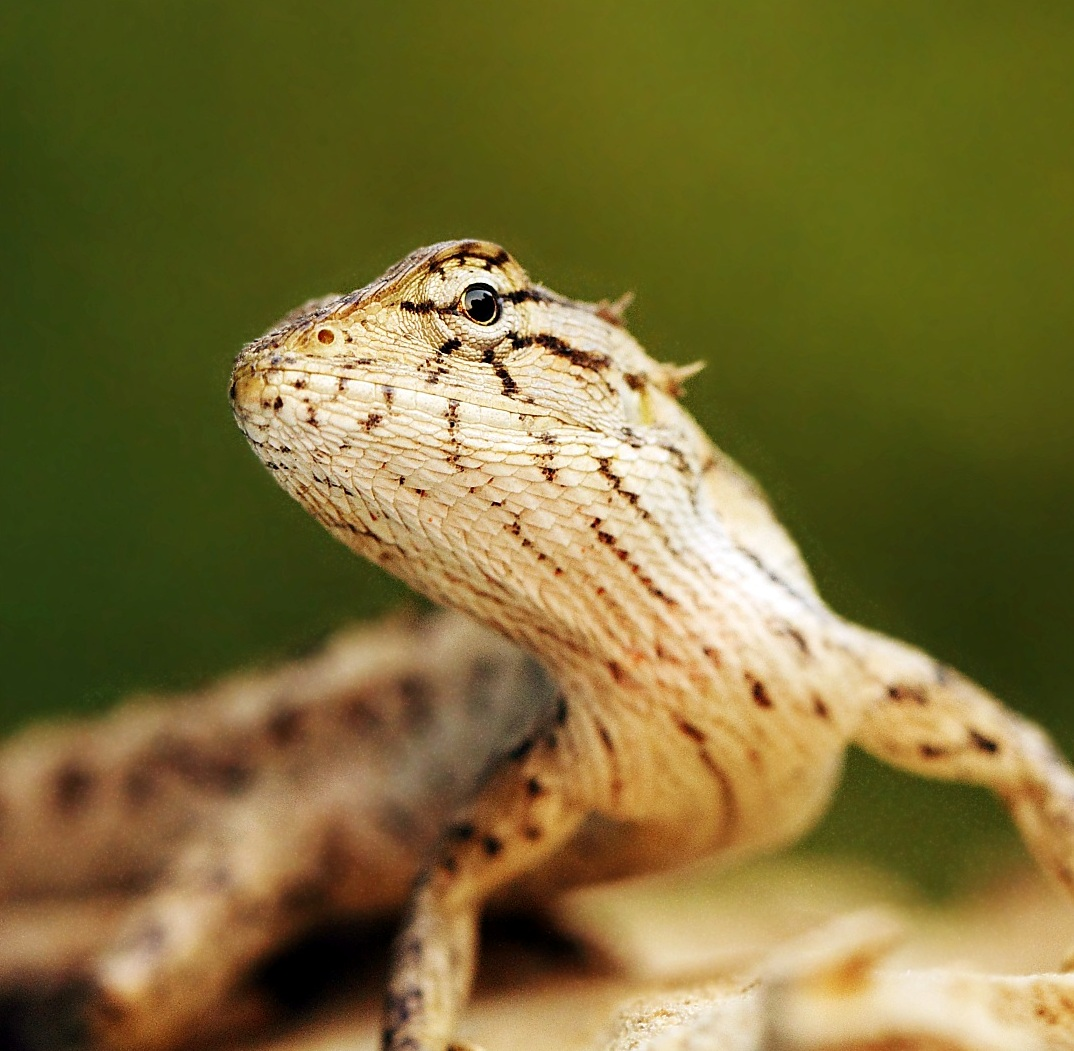 Oriental Garden Calotes at Dehradun, India